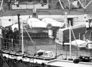 Photograph showing stern twin 13.5 inch gun barbette of British battleship HMS Empress of India, in drydock at Chatham. This is a clipping of the full image at Image:HMS Empress of India Stern Drydock.jpg